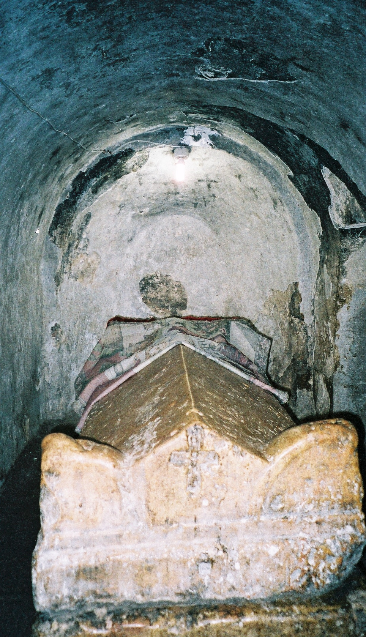 Photograph by Gareth Hughes of the tomb of Saint Jacob (Mor Y`aqub) in Nisibis.